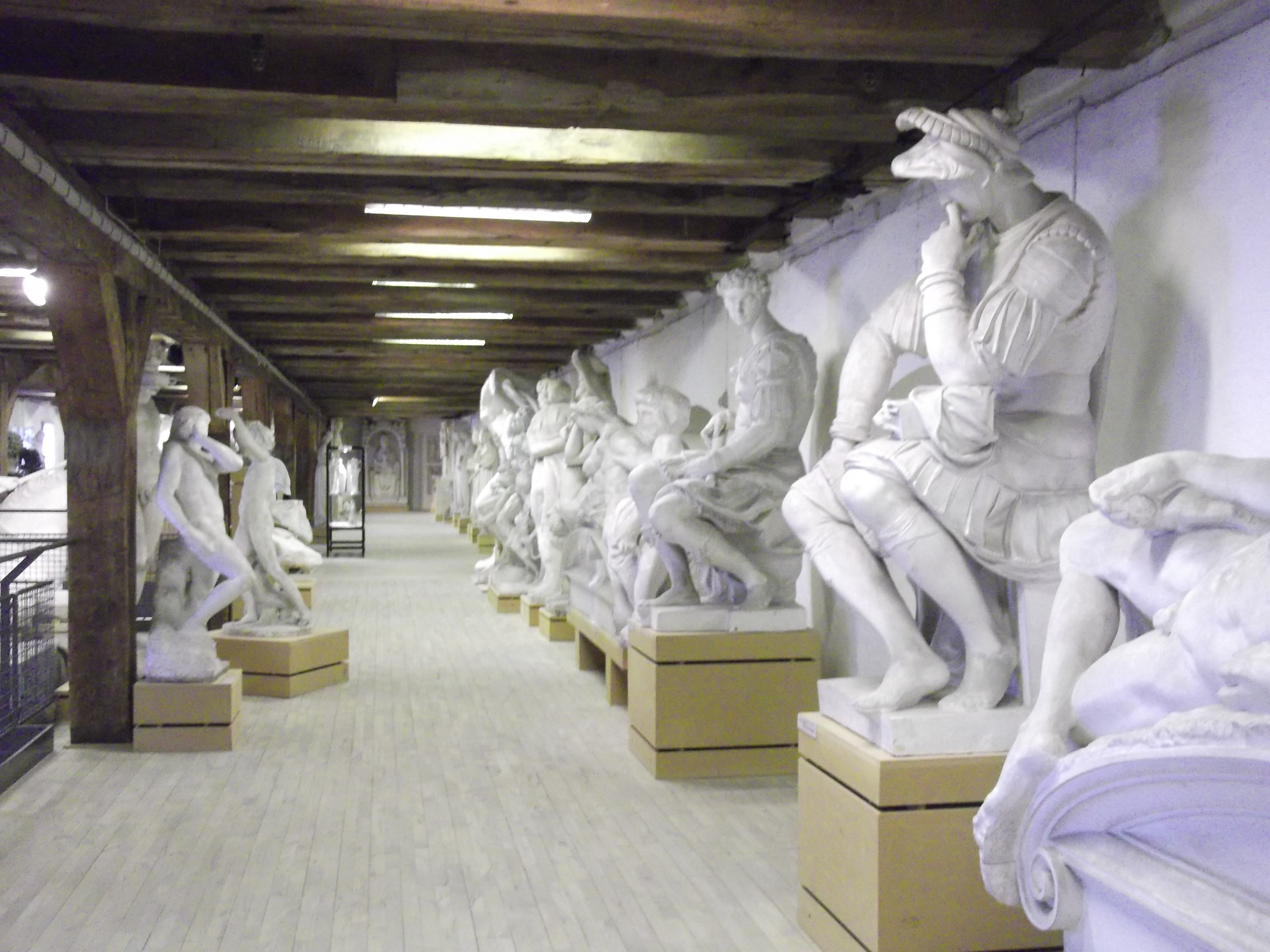 Plaster cast of item in other museum